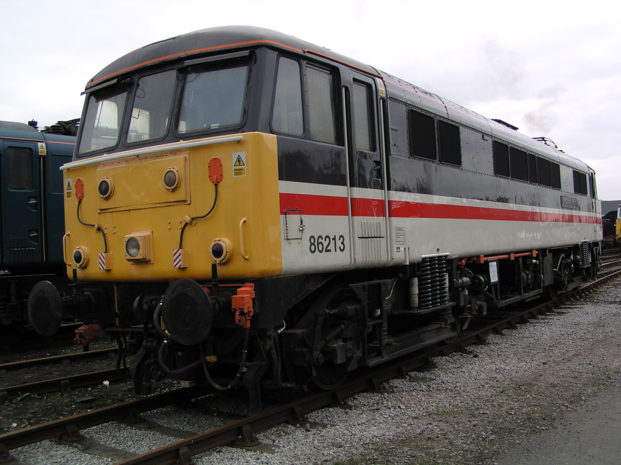 British Rail Class 86, no. 86213 "Lancashire Witch" at Crewe Works open day on 11th September 2005. This locomotive is preserved by the AC Locomotive Group. Image by Phil Scott (Our Phellap)